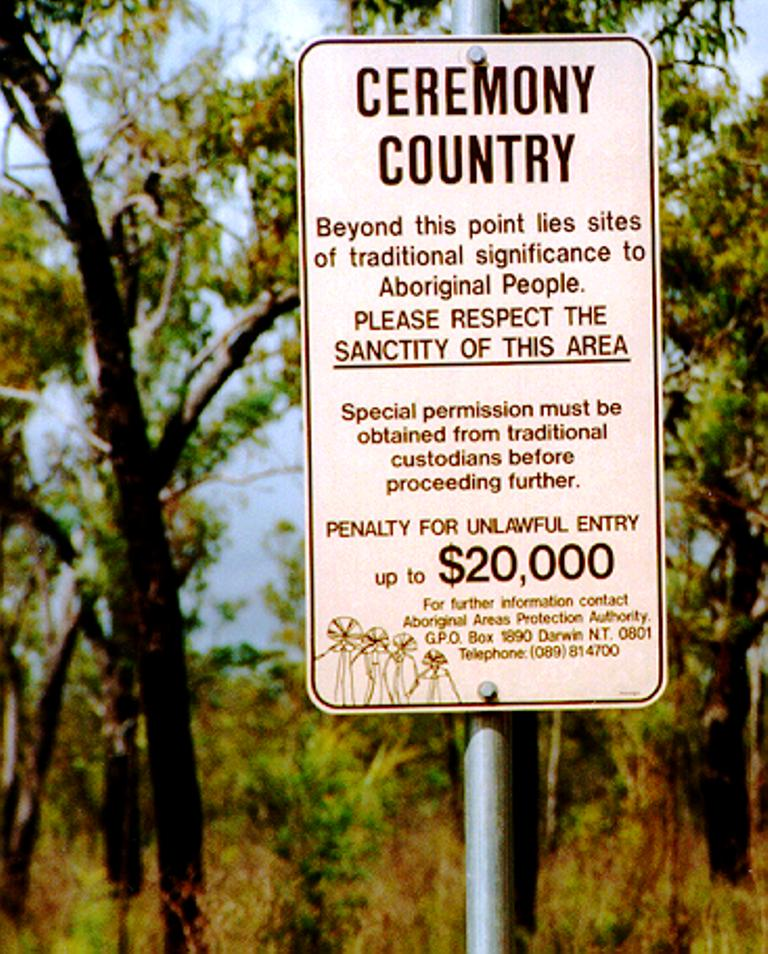 A sign located in central Arnhem Land, in Australia's Northern Territory. To enter Arnhem Land requires permission from the Northern Land Council (a statutory authority representing the indigenous inhabitants of the northern half of the Territory). Parts of the region, as in the area behind this sign, are 'sacred' - ie they have significant cultural/historuical/religious significance to the indigenous owners, and are essentially "off limits" even to those with permission to travel across Arnhem Land.